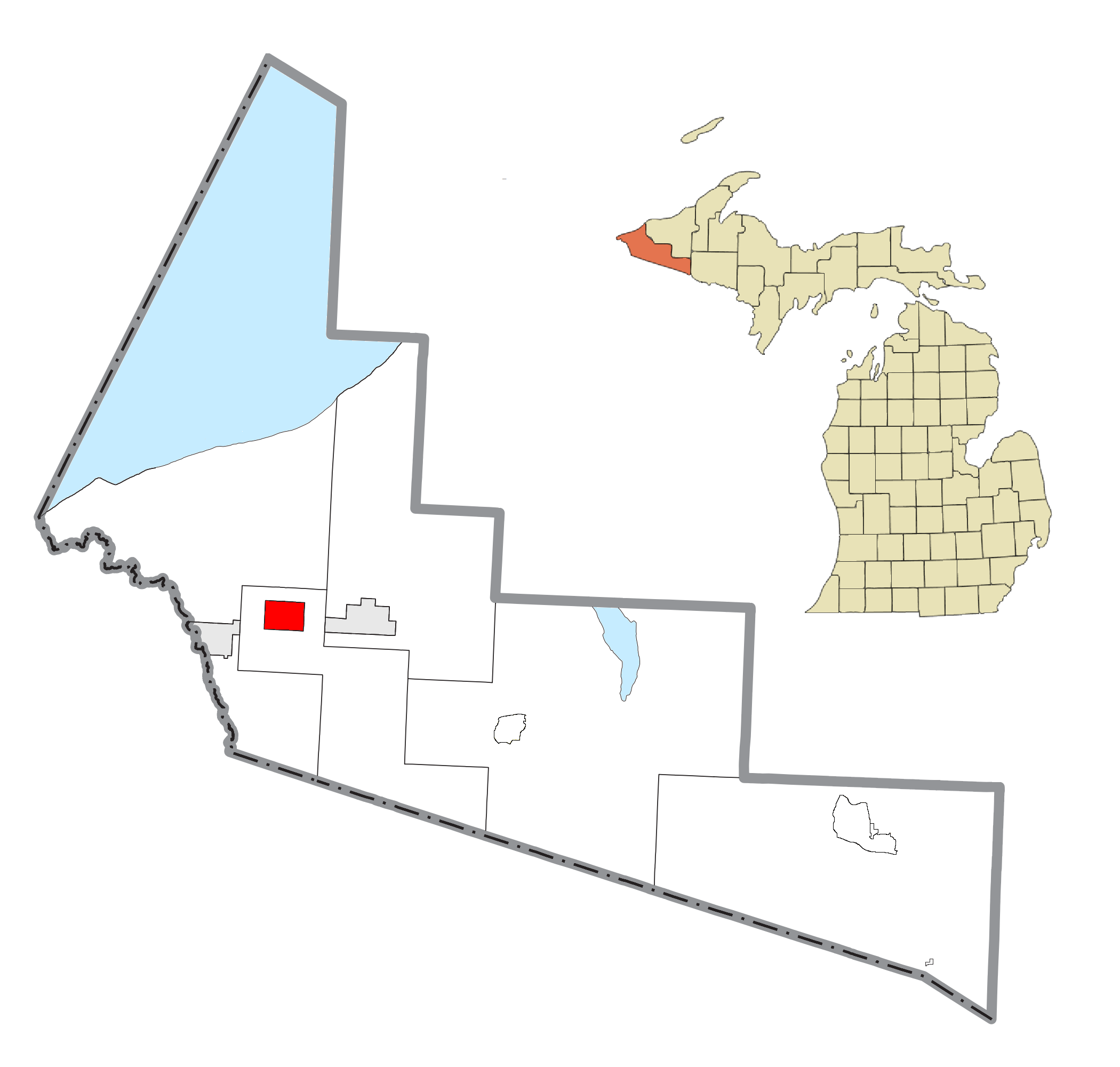 Bessemer, MI